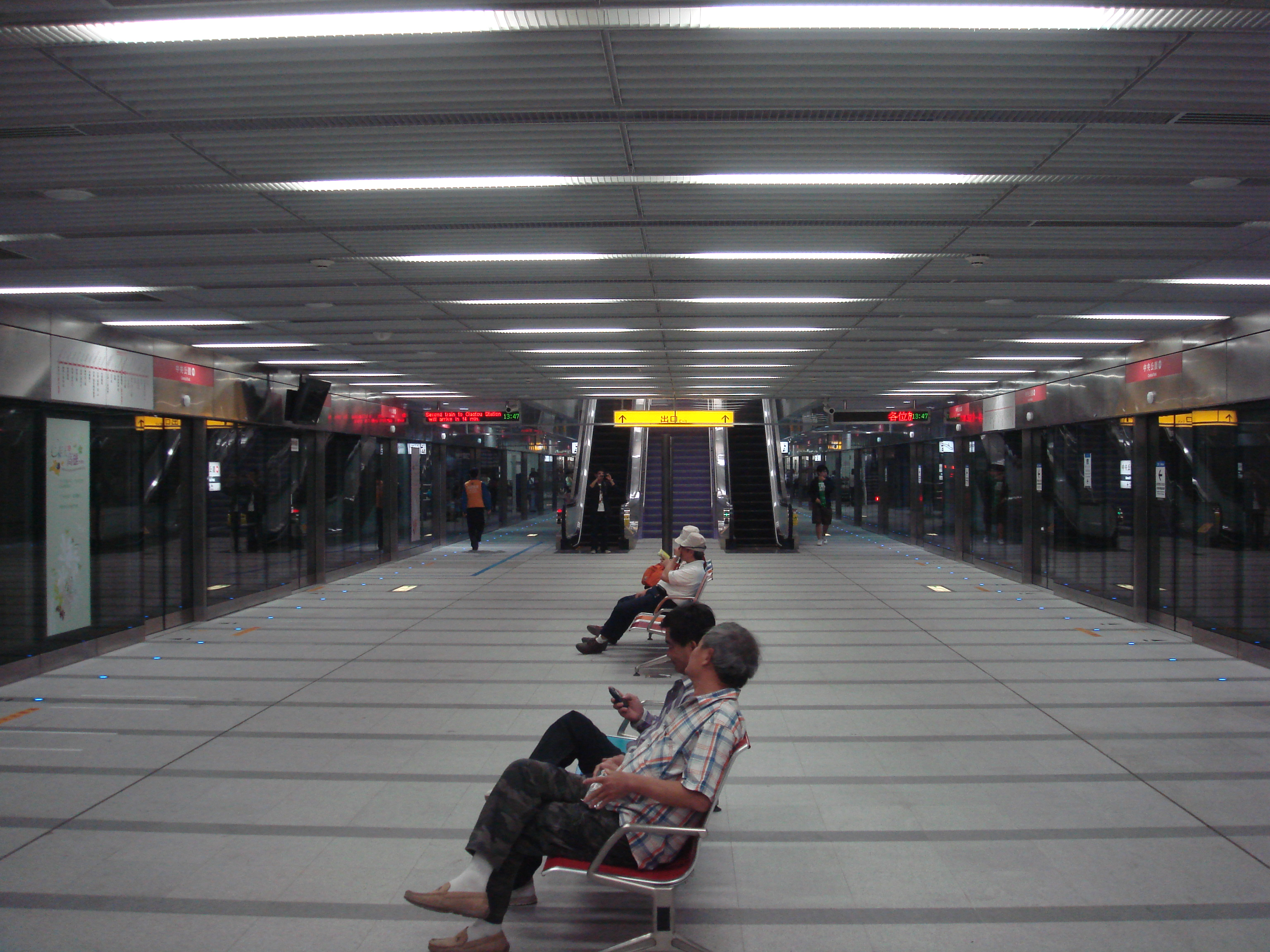 Kaohsiung MRT Central Park Station Platform.